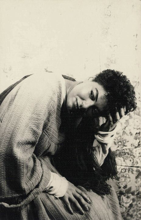 Portrait of the singer Pearl Bailey, by Carl Van Vechten.